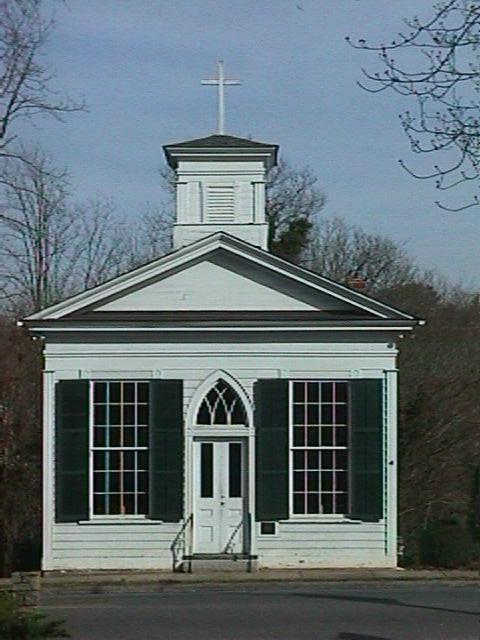 Historic St. John's Episcopal Church (later Trinity Lutheran Church) Rutherfordton, NC, currently headquarters of the Rutherford County Historical Society which owns the property.